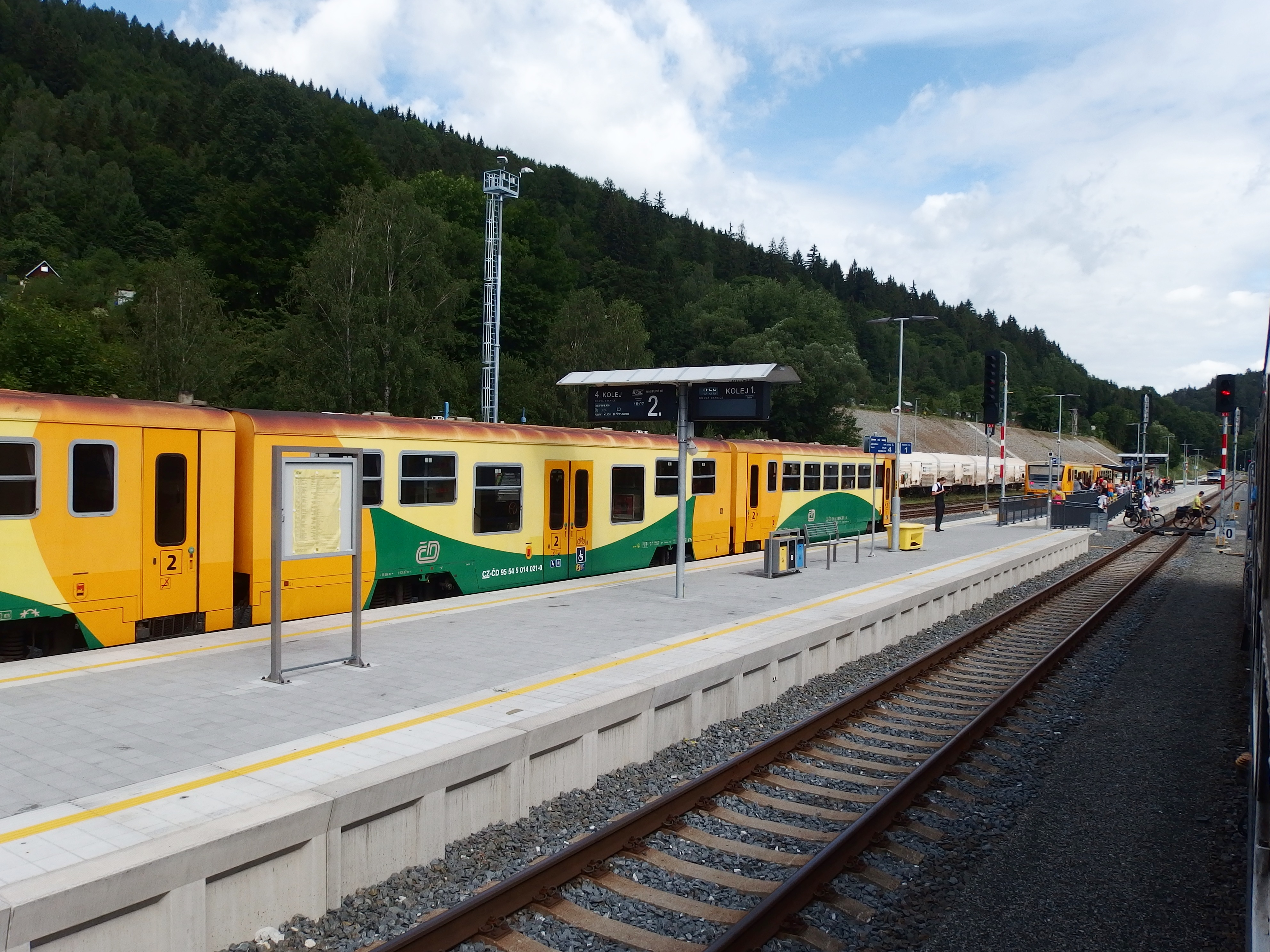 Hanušovice, Šumperk District, Czech Republic.